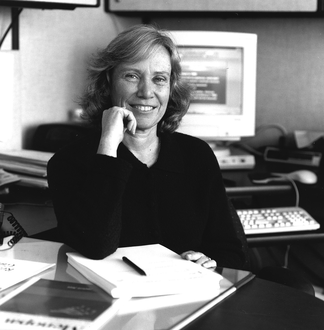 Title Brinton, Louise Description Louise A. Brinton, Ph.D., M.P.H., Chief, Hormonal and Reproductive Epidemiology Branch, Division of Cancer Epidemiology and Genetics, National Cancer Institute. Topics/Categories National Cancer Institute, People Type B&W, Photo Source National Cancer Institute